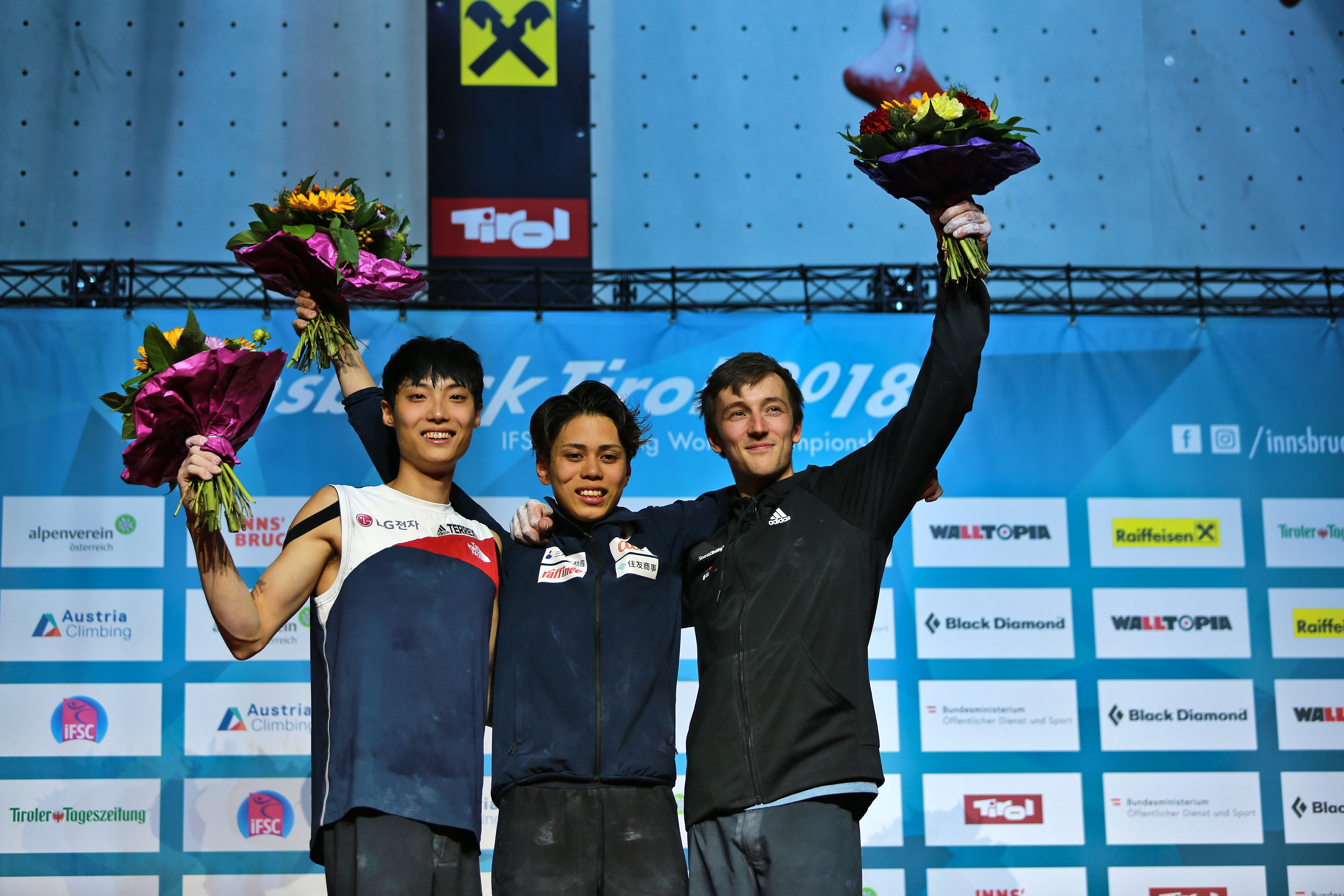 Climbing World Championships 2018 Boulder Final Man winners